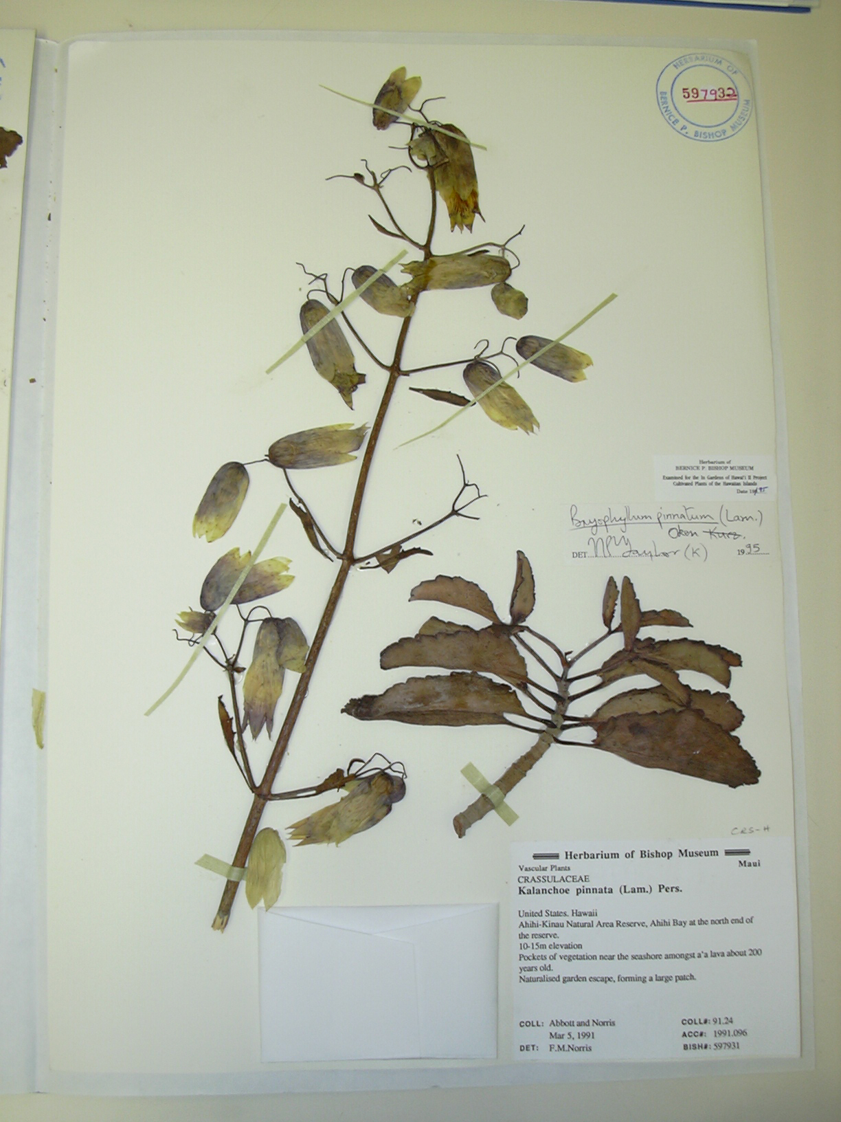 Kalanchoe pinnata (BISH specimen). Location: Maui, Ahihi Kinau